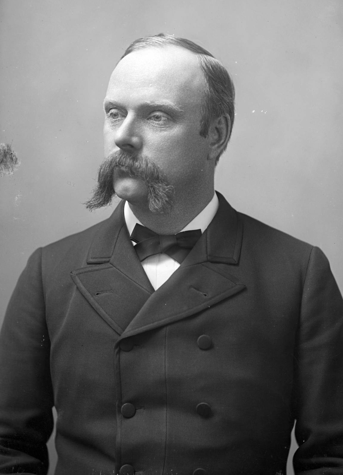 Henry Rinaldo Porter, Assistant Surgeon with 7th Cavalry during Battle at Little Bighorn.